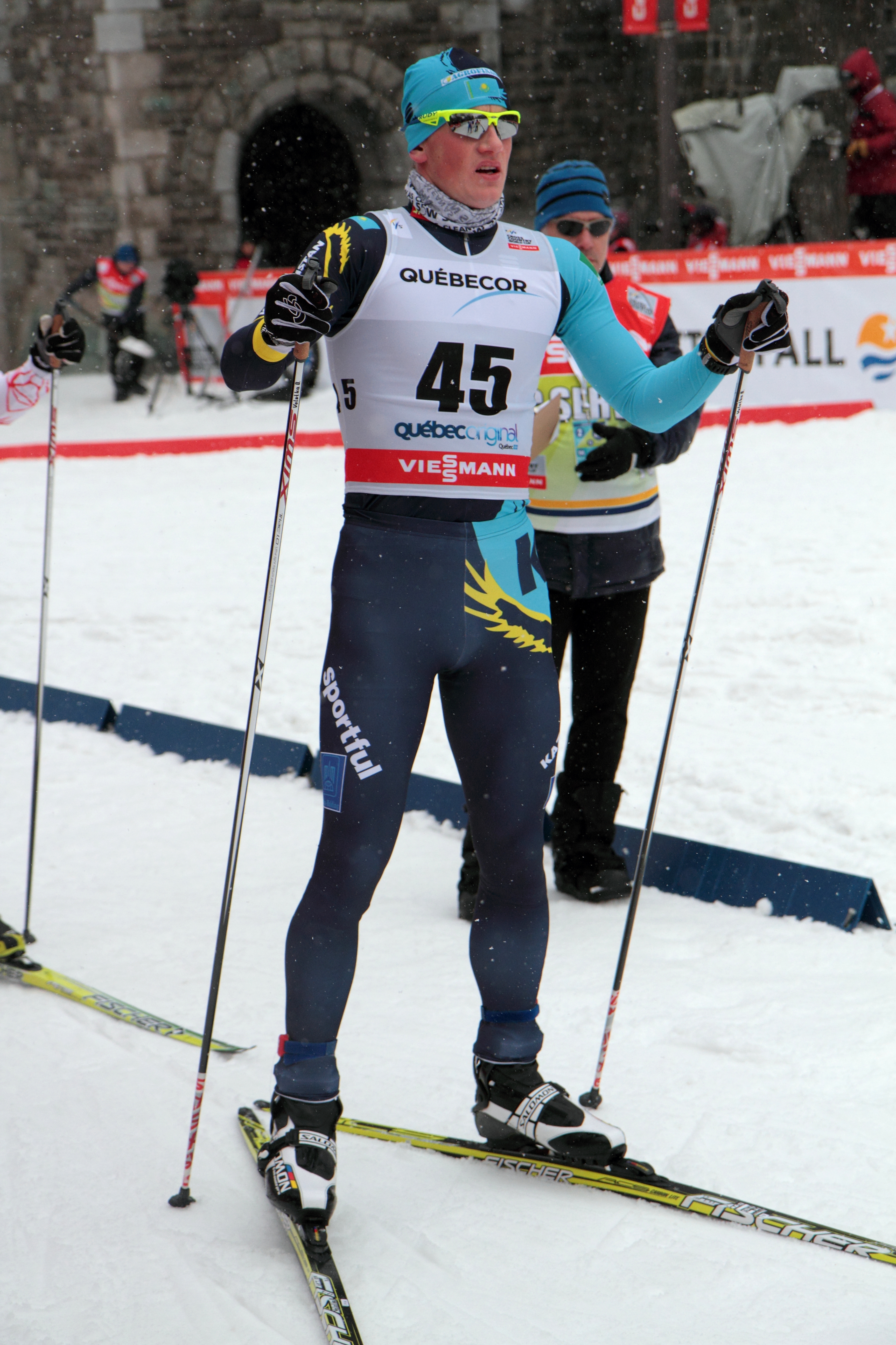 Denis Volotka, FIS Cross-Country World Cup 2012, Quebec, Canada.